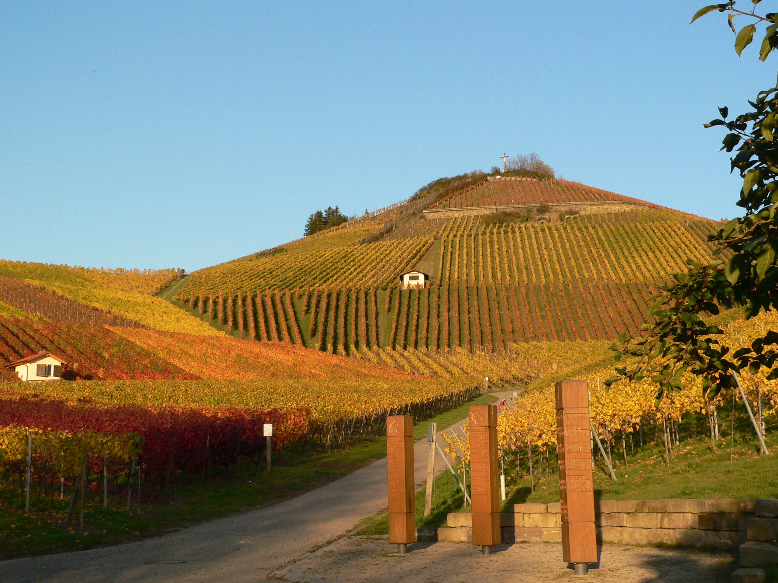 Vineyards on mountain "Scheuerberg" of the City Neckarsulm